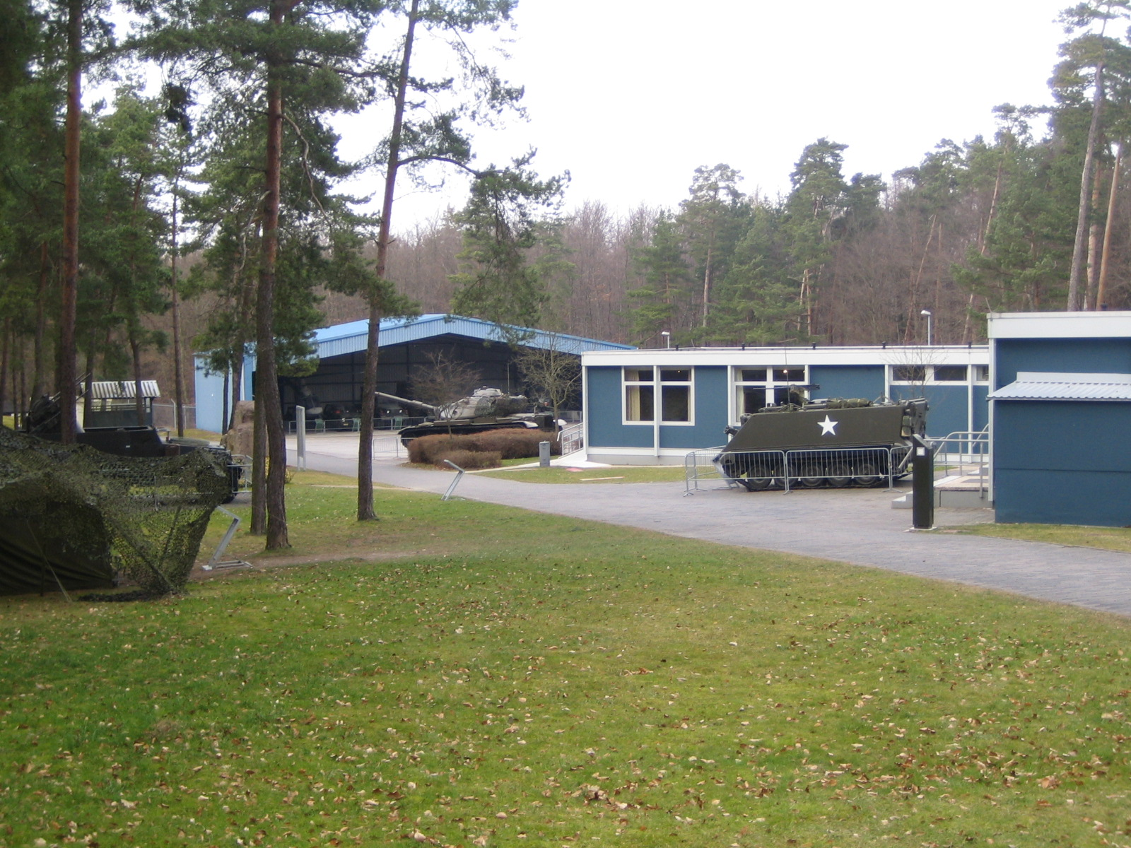 Former watch tower on the Inner German border, now at the museum Point Alpha